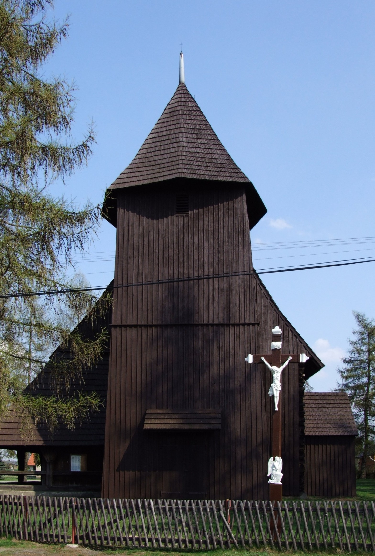 Wooden church in Chocianowice (Kotschanowitz), Upper Silesia